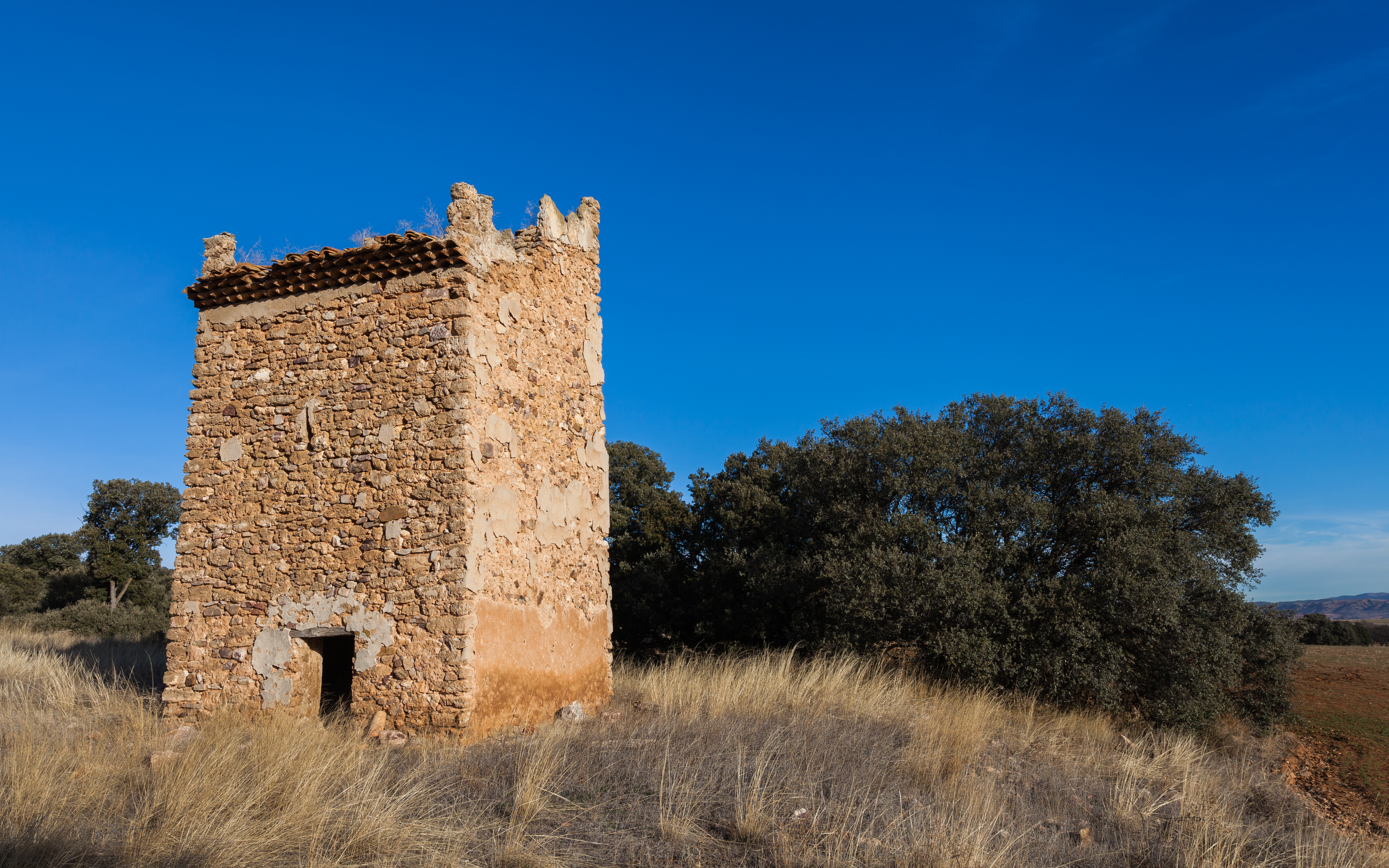 El Poyo del Cid, Teruel, Spain